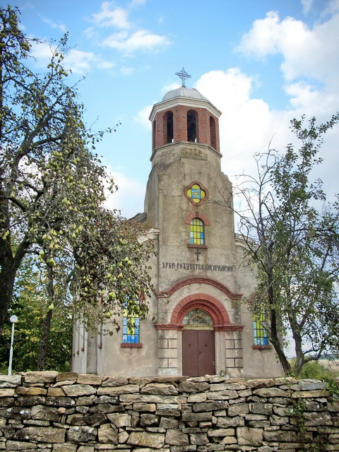 Village Baba Tonka, Popovo Municipality, Bulgaria. The church